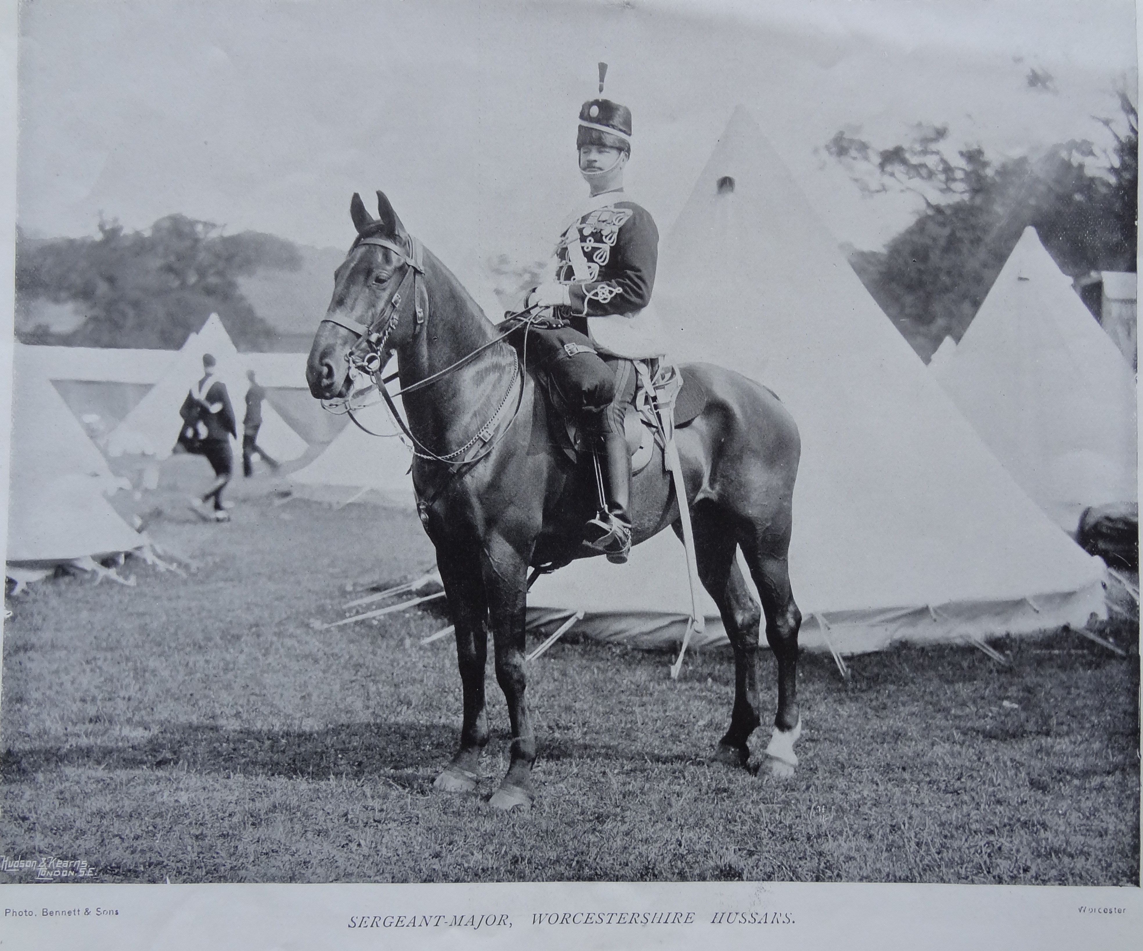 Taken from the Navy and Army Illustrated magazine, 1890s